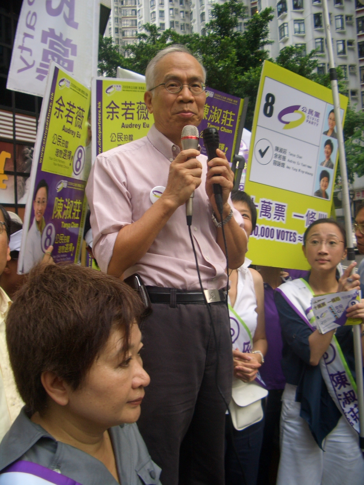 Kuan Hsin-chi, Chariman of Civil Party 中文（香港）: 關信基，公民黨主席